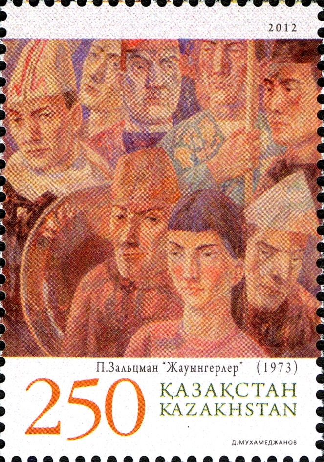 Stamps of Kazakhstan, 2012